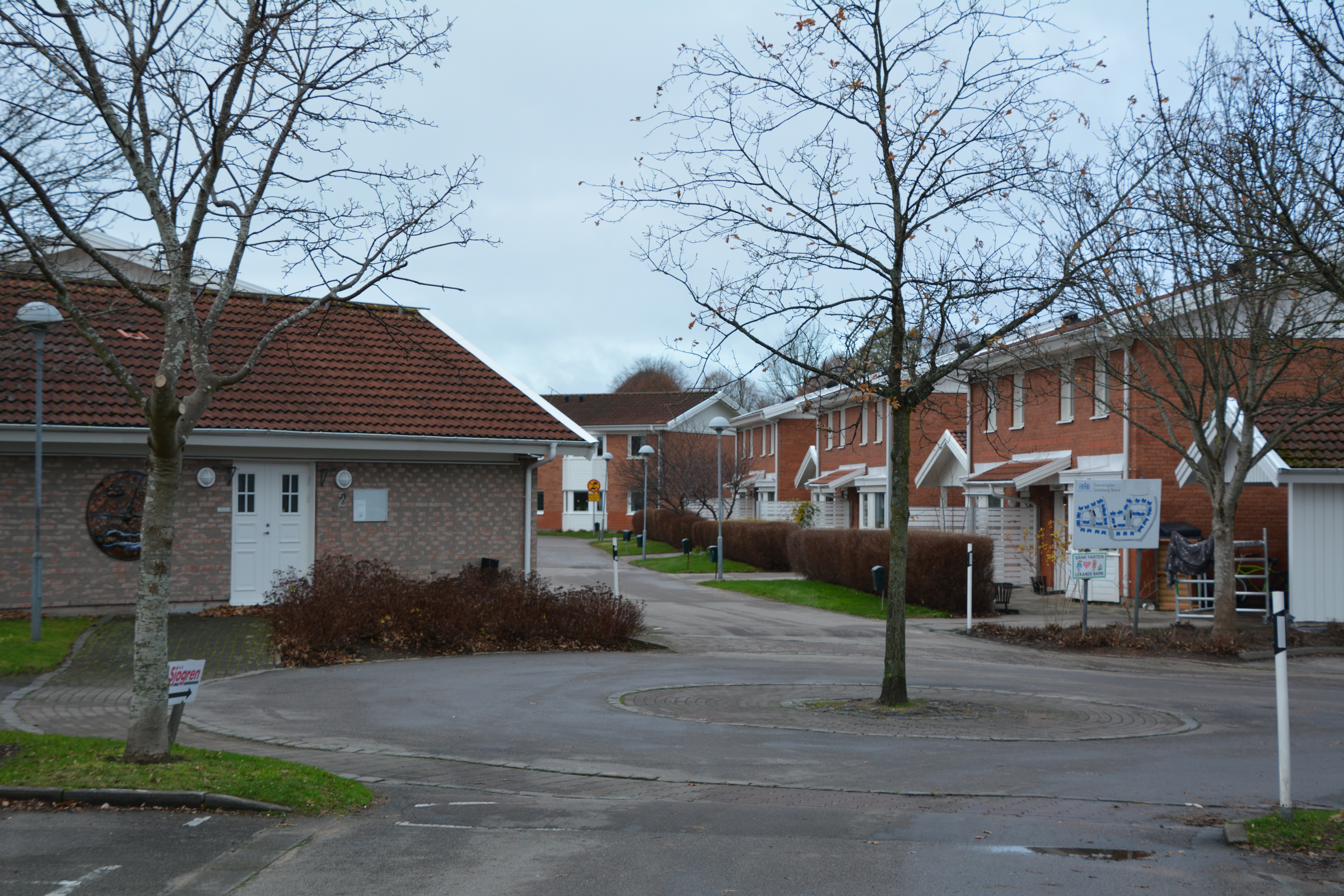 Sofieberg, Halmstad